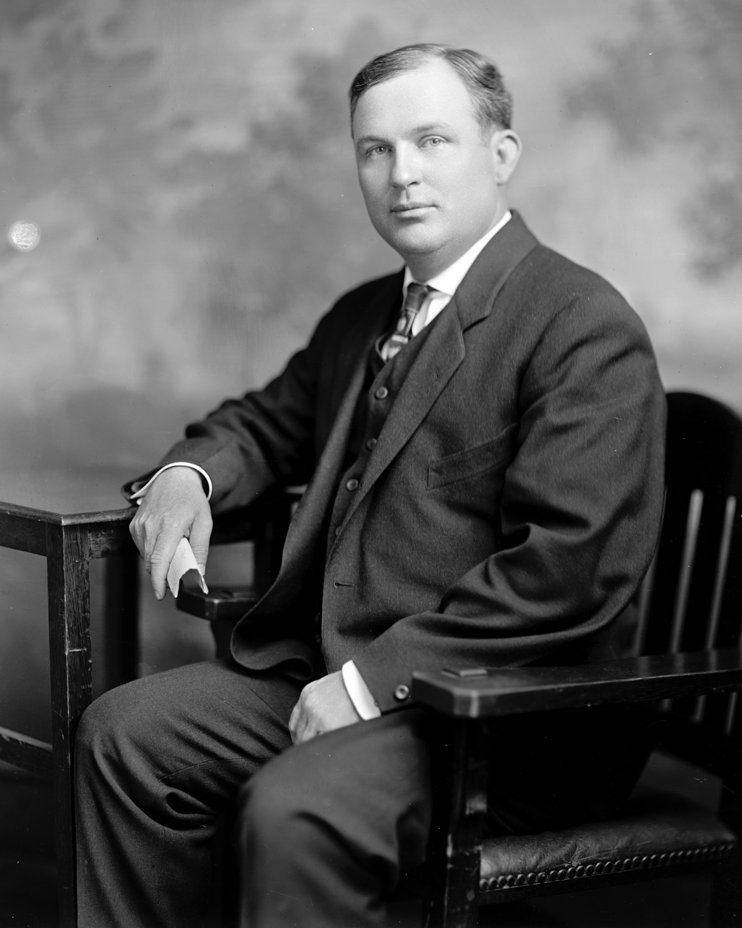 John Randall Walker, US Representative from Georgia